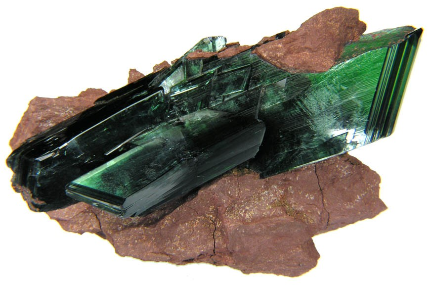 Vivianite Locality: Tomokoni mine, Machacamarca District (Colavi District), Cornelio Saavedra Province, Potosí Department, Bolivia (Locality at ) Size: 8.1 x 6.2 x 3.4 cm. This mine has produced what are clearly some of the finest quality Vivianite specimens ever seen. This miniature size piece features some absolutely beautiful, lustrous, gem quality, emerald green; sword shaped "textbook" crystals of Vivianite with minor metamorphosed Sandstone. One of the Vivianite crystals is even doubly-terminated. These are some of the best quality Vivianite crystals you will see from any locality, hands down.